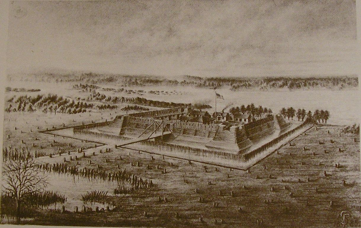 Sketch of Fort Nelson (Kentucky) from 1885. Scanned by me from original book. Caption was "sketch made for Col. Durrett".